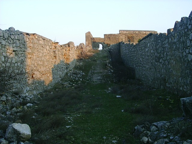 The town of Kalinovnik, Republika srpska, BiH